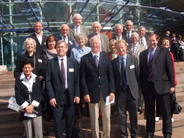 This picture was taken before the first deliberation of the ECHR Grand Chamber - CARSON AND OTHERS v. THE UNITED KINGDOM - 42184/05 [2010] ECHR 338